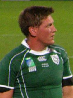 Irish rugby union player Ronan O'Gara during 2007 World Cup match against Georgia on Stade Chaban Delmas, Bordeaux, France.